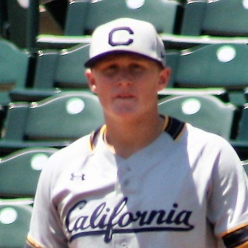 Cropped version of Andrew Vaughn playing for the Cal Bears baseball team